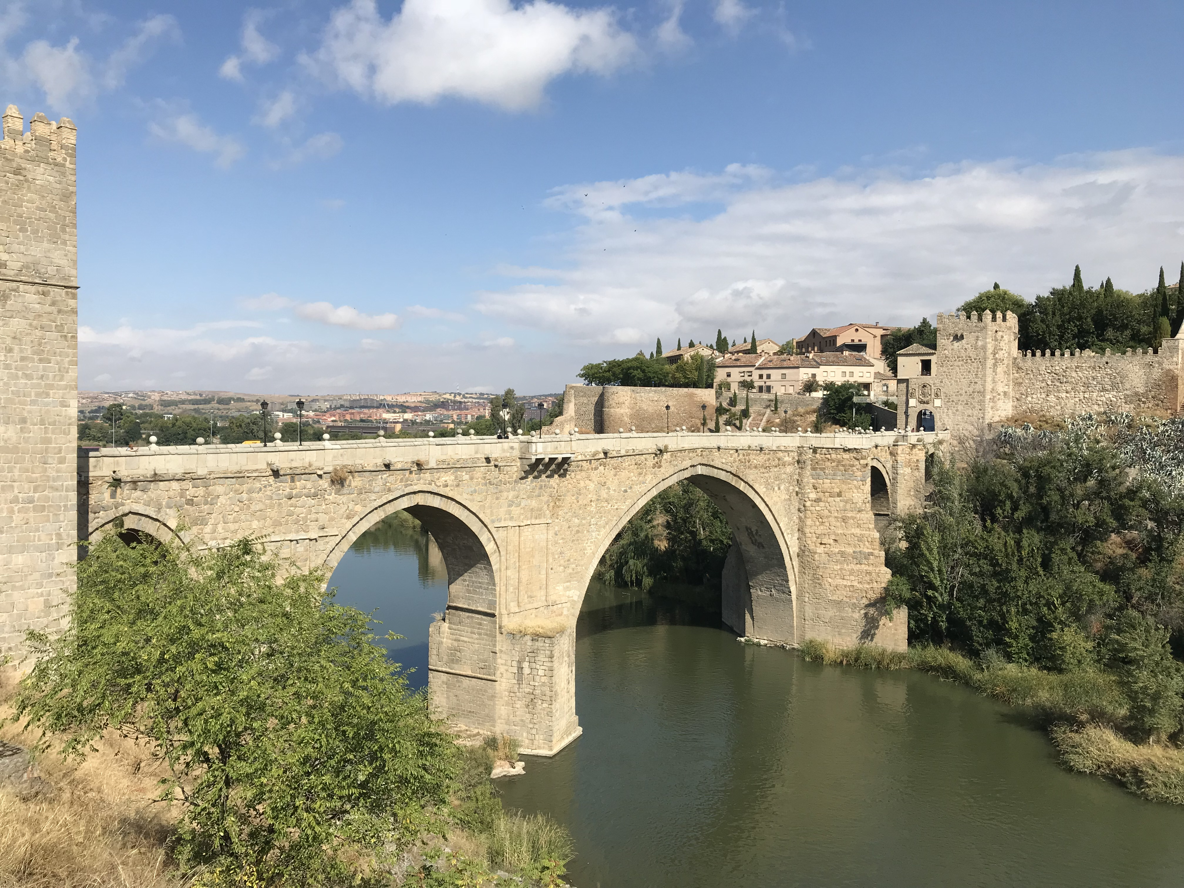 Puente de San Martín (Toledo)